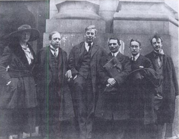 New York Courthouse, May 1918 - Eastman, Young, Eastman, Hillquit, Rogers, Dell.